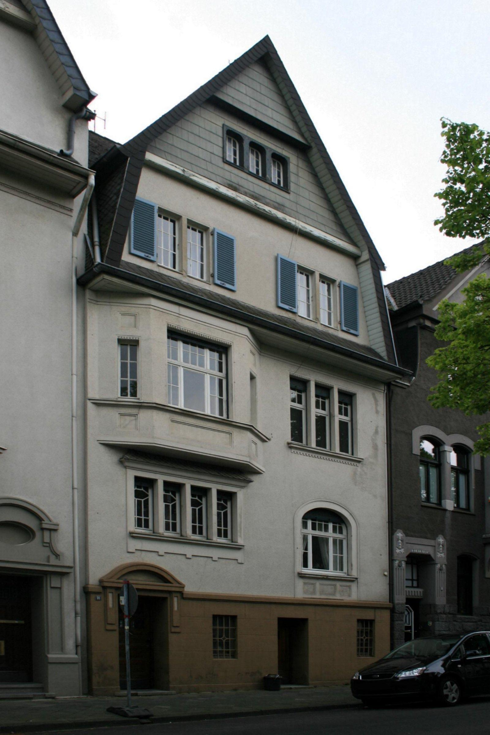 Cultural heritage monument No. F 022 in Mönchengladbach